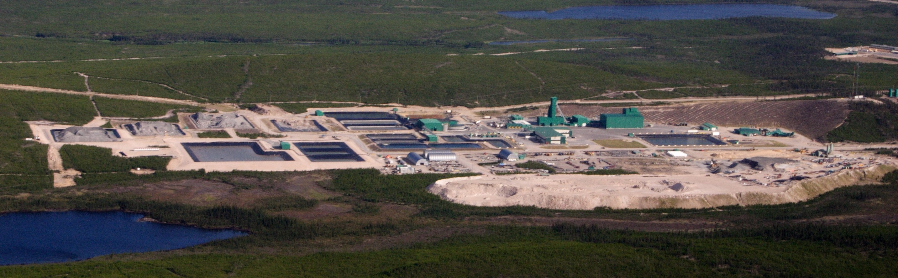 McArthur River Uranium mine, looking South East.